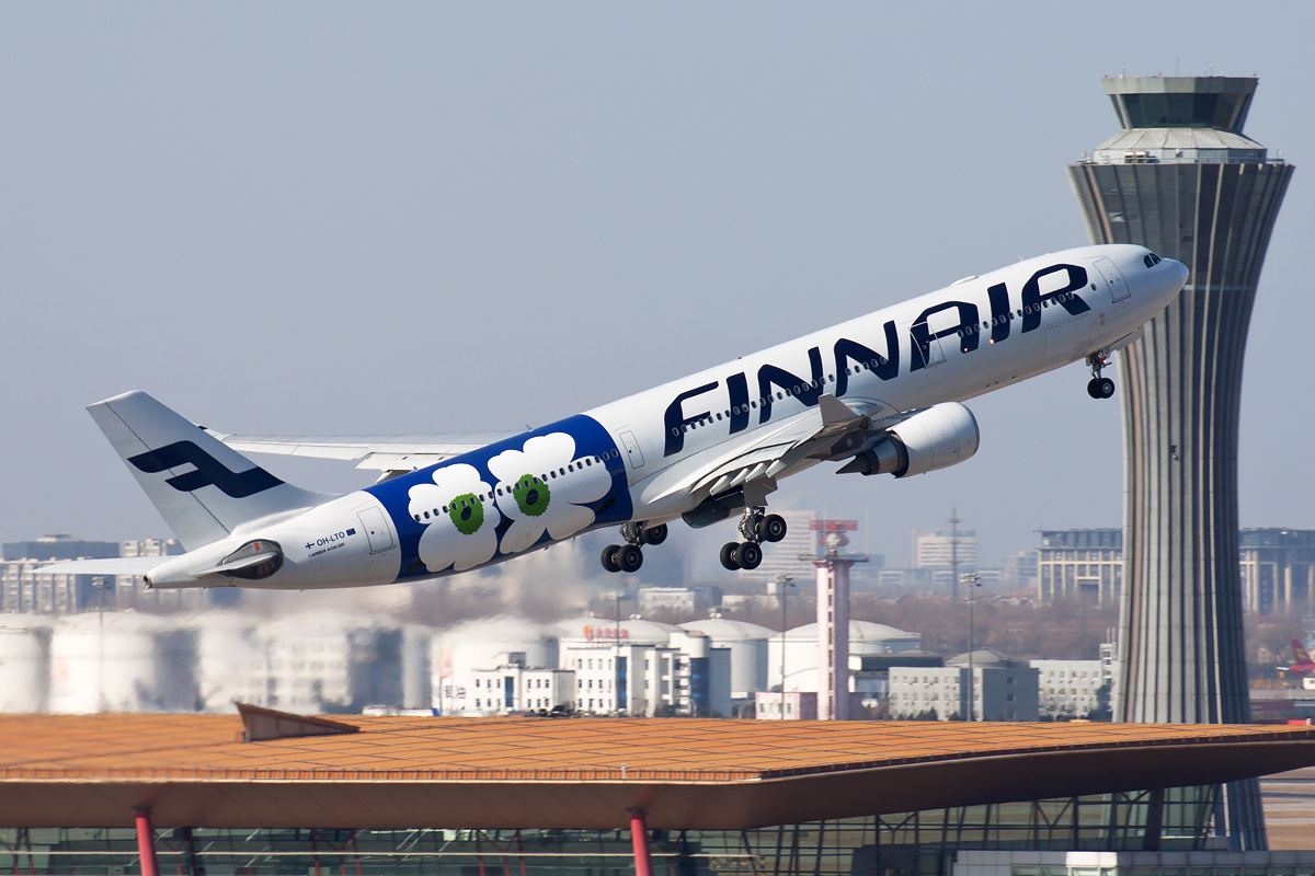 The new Marimekko livery for Finnair.AY52 from PEK to HEL.